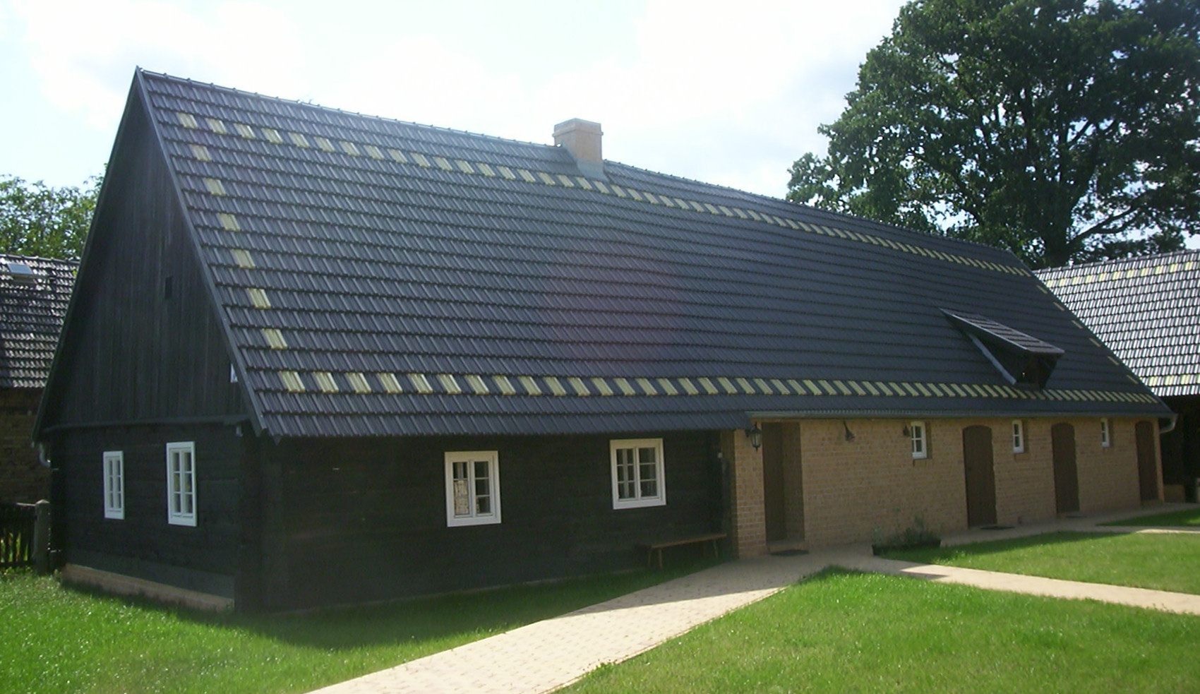 The birth place of Hanso Njepila in Rohne (Schleife, Saxony) serves today as a location for the Sorbenstube museum and for the Njepila association.